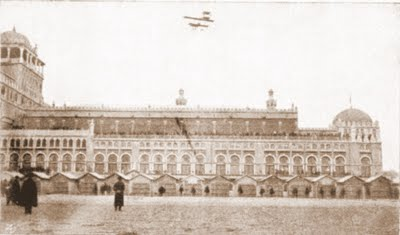 Alessandro Cagno flies his Farman II above Saint Marks Square Venice - March 1911